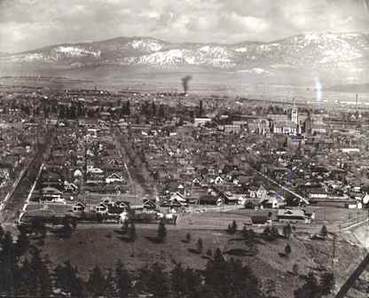 Nettleton's Addition in Spokane, Washington, circa 1909.